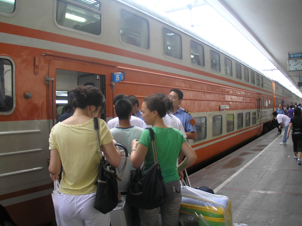 An SYZ25B passenger coach in Harbin Railway Station, Harbin, Heilongjiang, China.